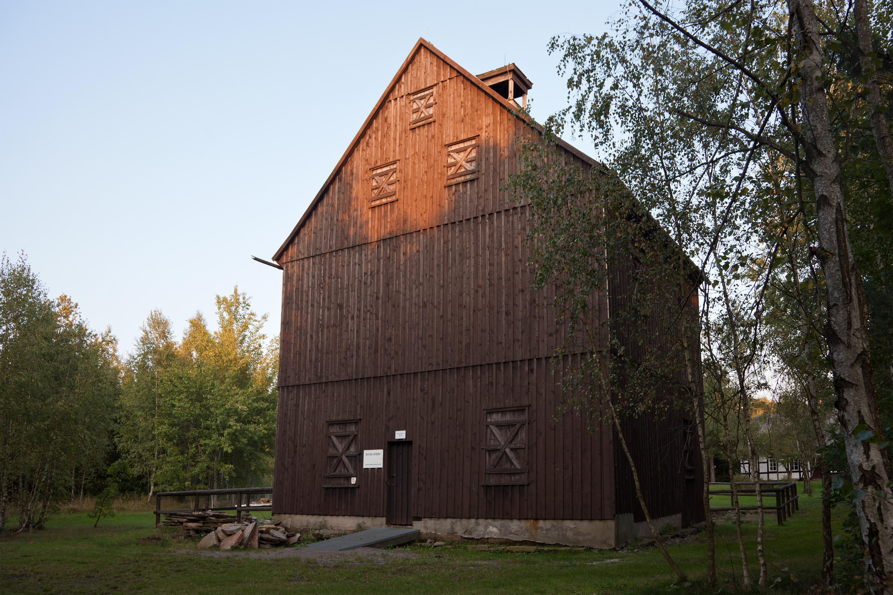 Halsbrücke, former mining region, building at the ventilation shaft No. 7 of the Rothschönberger Stolln